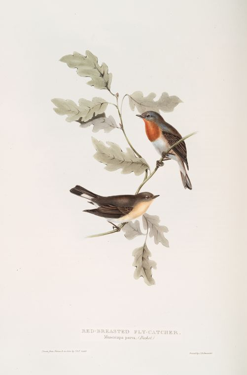 Red breasted Flycatcher, Ficedula parva